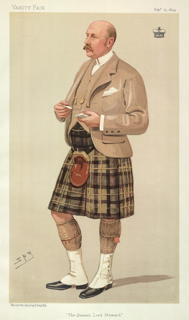 Statesmen No.643: Caricature of The Marquis of Breadalbane KG PC. Caption reads: "The Queen's Lord Steward"